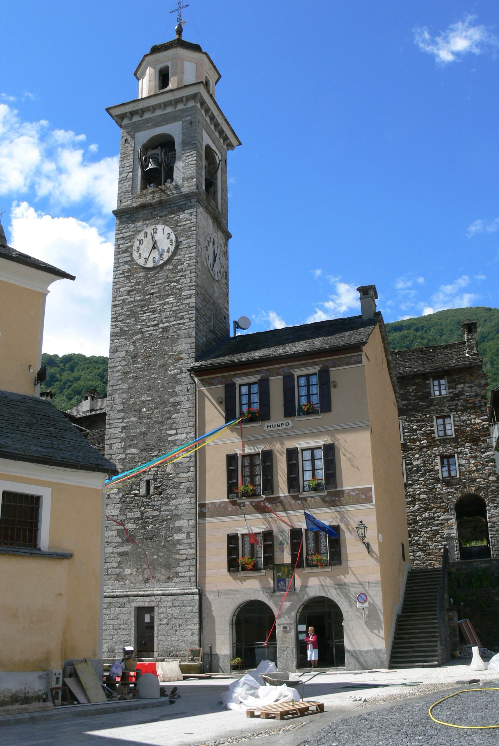 Gurro ( Valle Cannobina ). Main square with tower and local museum.